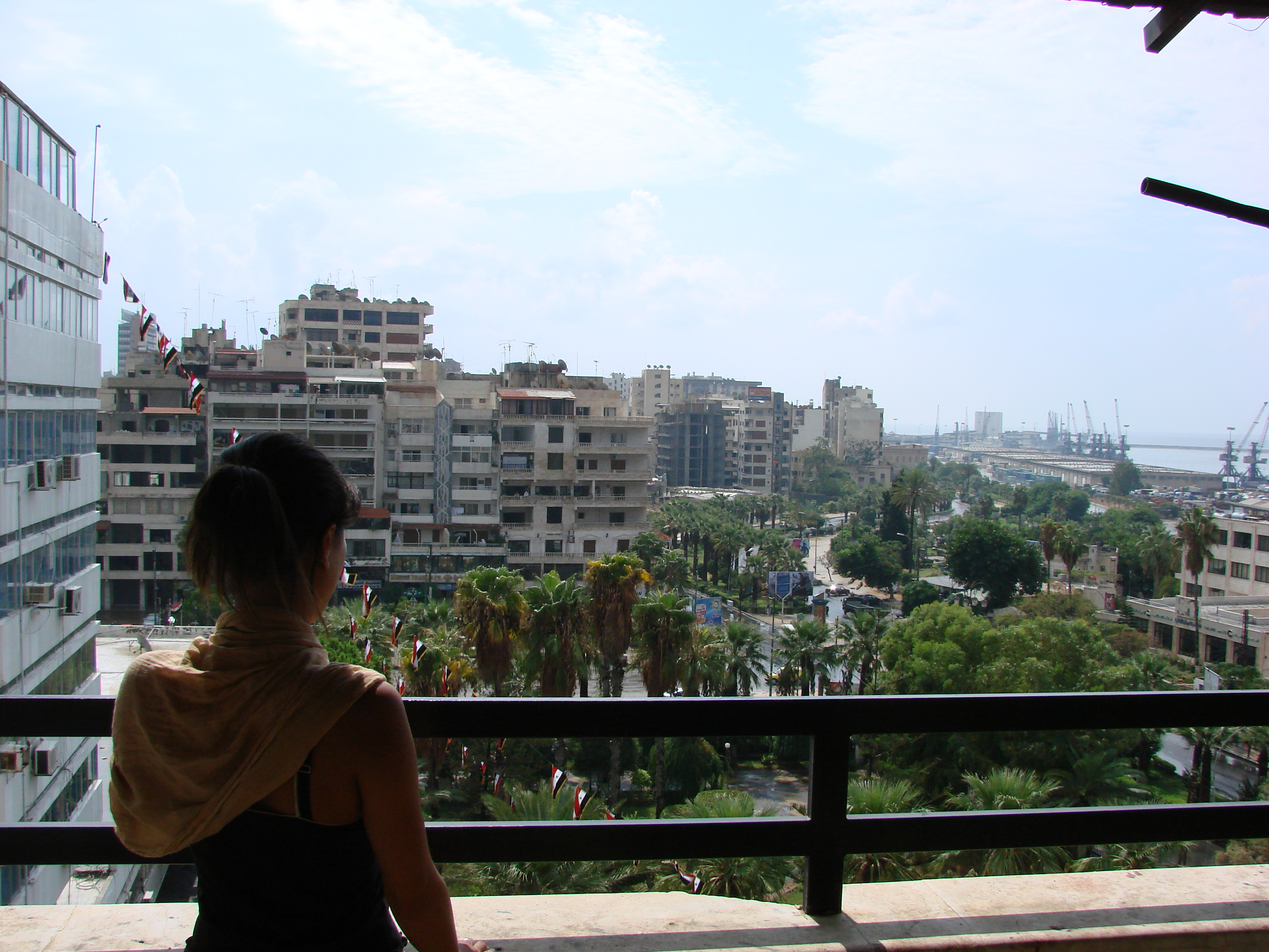 Latakia downtown view